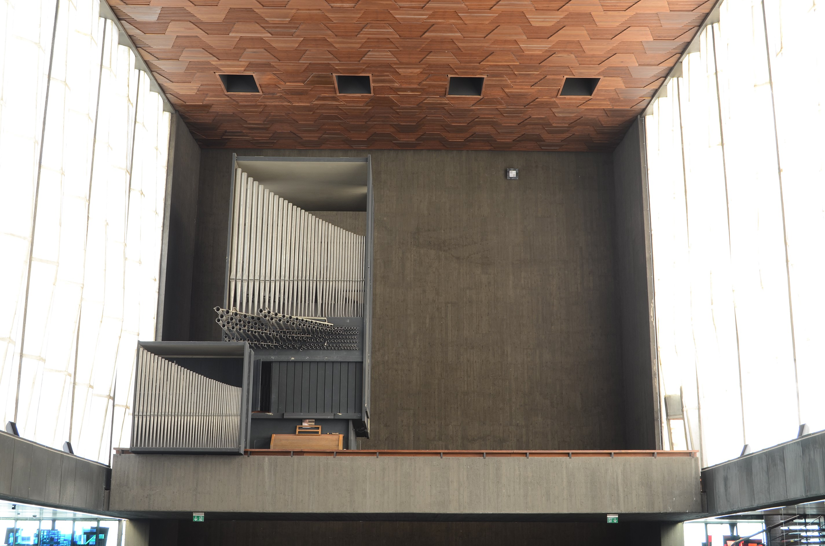 Duisburg (North Rhine-Westphalia, Germany) – borough Mitte, district Altstadt – Catholic Church of Our Lady – upper church – pipe organ This image shows a heritage building in Germany, located in the North Rhine-Westphalian city Duisburg (no. 535). This photograph was taken with a Nikon D7000